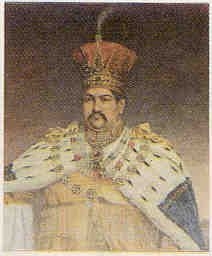 Amjad Ali Shah (1801-1847)